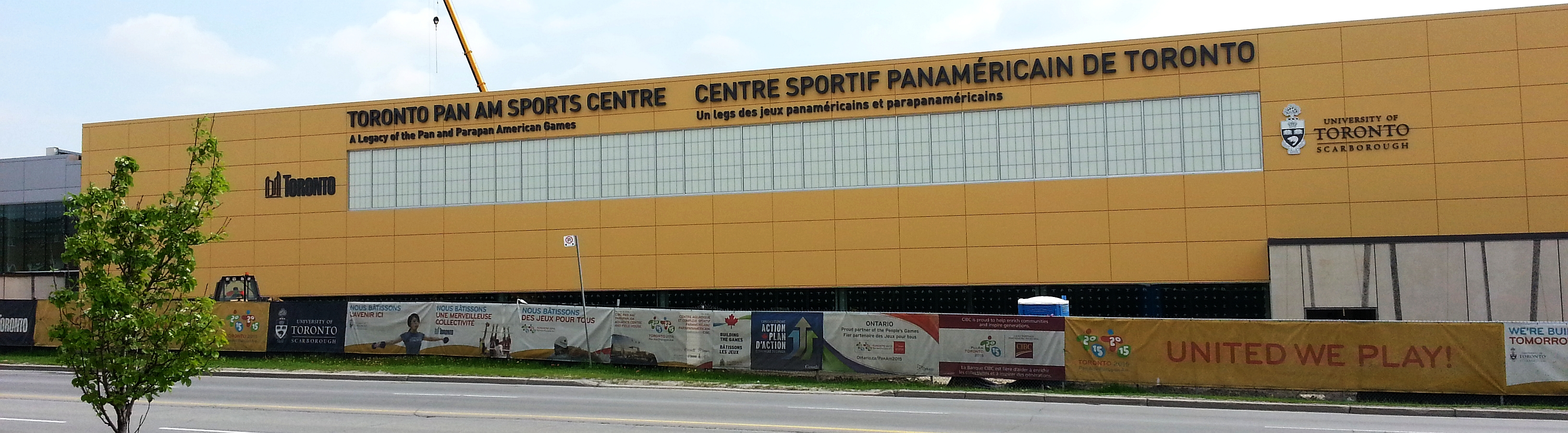 Pan American Games (2015) venue on Morningside Avenue, Scarborough, Ontario, Canada.